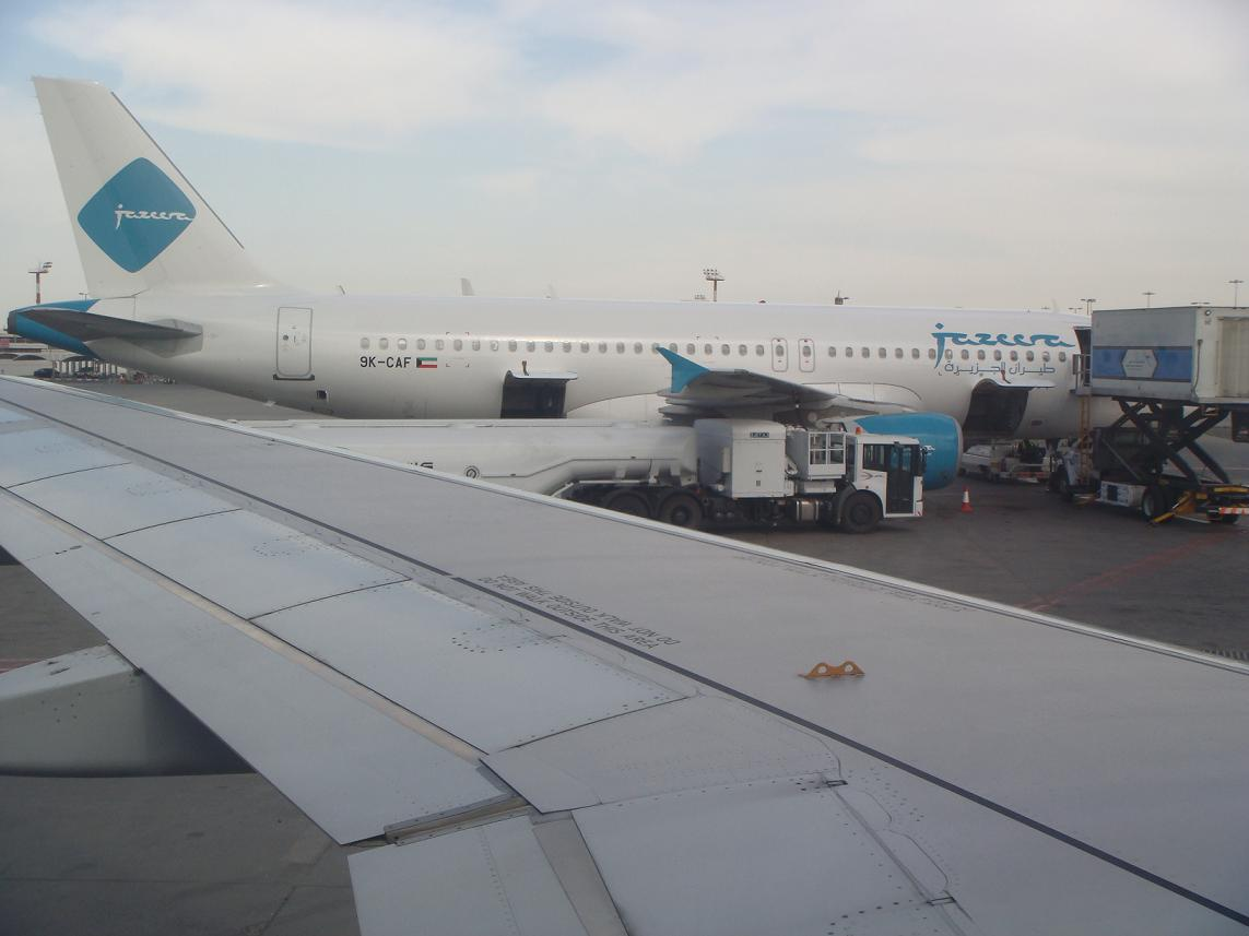 A Jazeera Airways Airbus A320 at Kuwait Airport